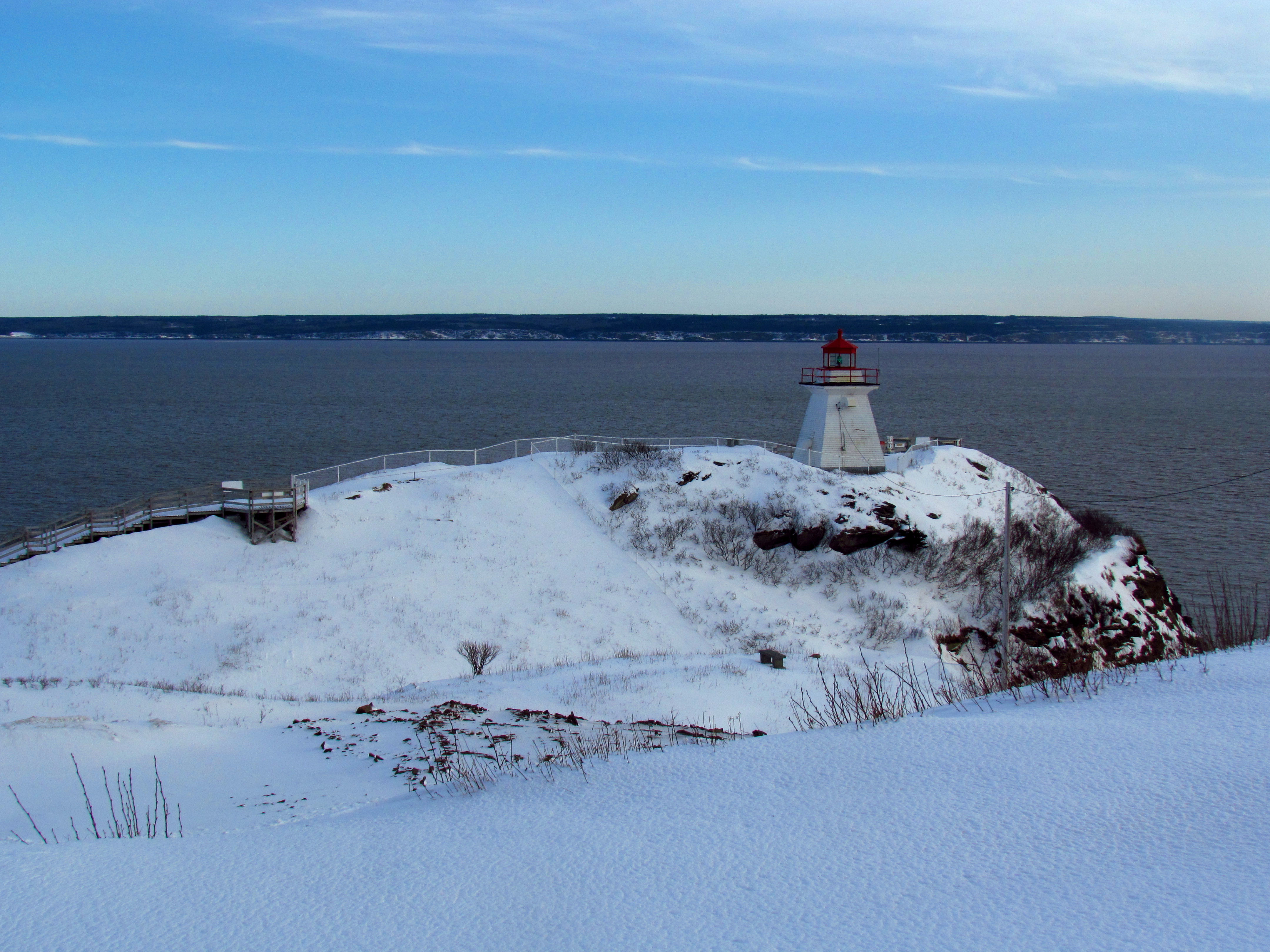 Lighthouse at Cape Enrage, New Brunswick, Canada, looking southeast to Bay of Fundy and Nova Scotia